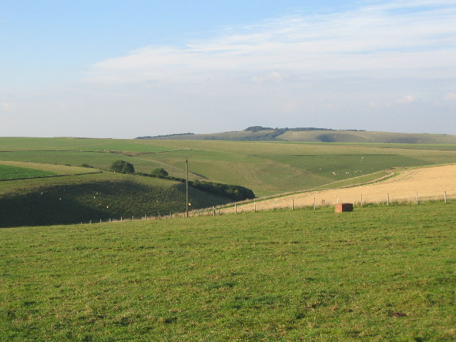 Mere Down. Looking north over Pond Bottom from the small parking area off the B3095 towards The Druses. This is a popular spot for picnics whilst watching the gliders from the nearby club airfield.